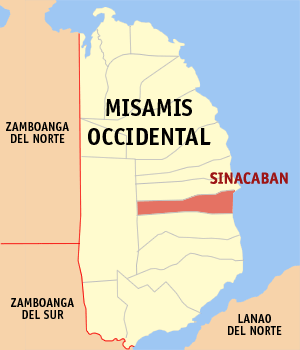 Map of the Misamis Occidental showing the location of Sinacaban